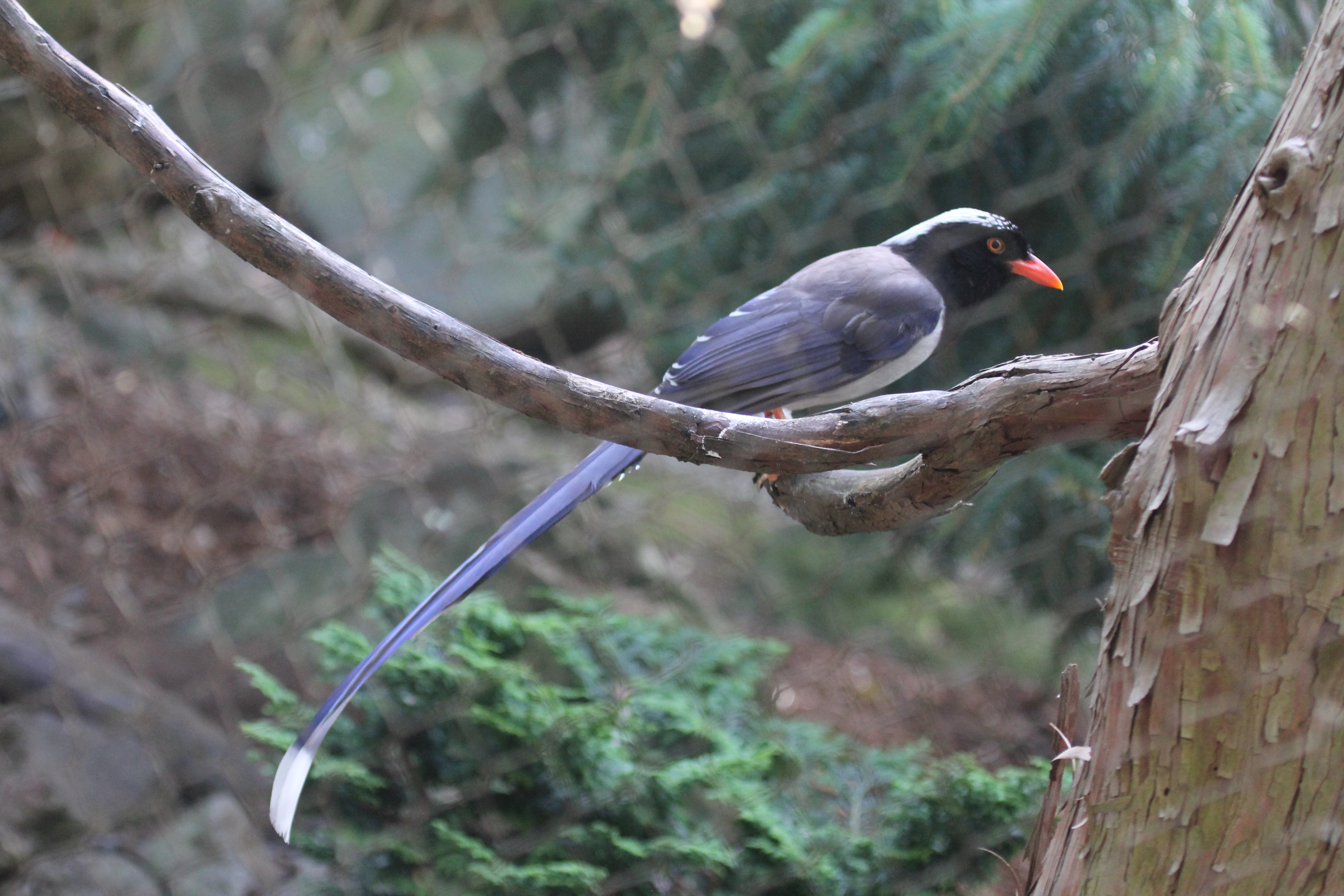 Red-billed Blue Magpie, also Blue Magpie (Urocissa erythrorhyncha) - Woodland Park Zoo, Seattle, Washington